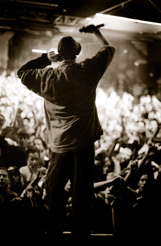 Mr Schnabel in Hamburg 1999